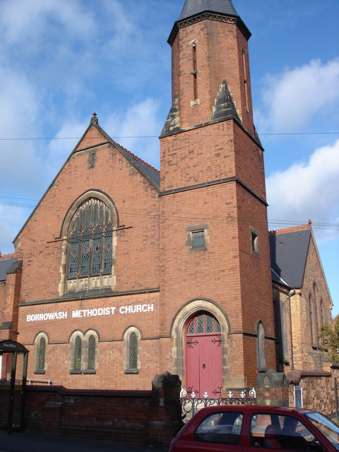 Methodist church, Nottingham Road, Borrowash, Derbyshire, seen from the south